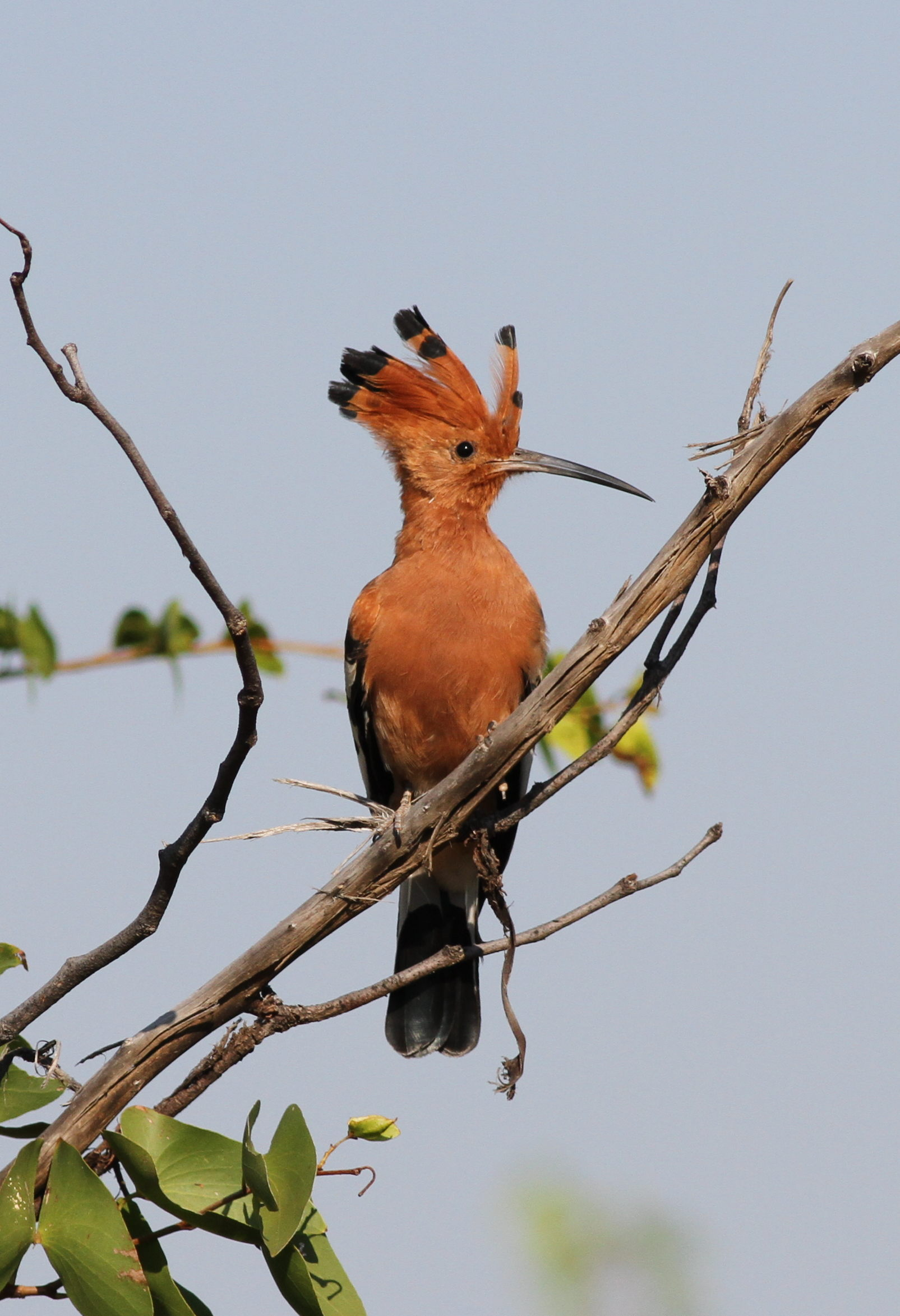 African Hoopoe, Upupa africana (Upupa epops) at Mapungubwe National Park, Limpopo, South Africa